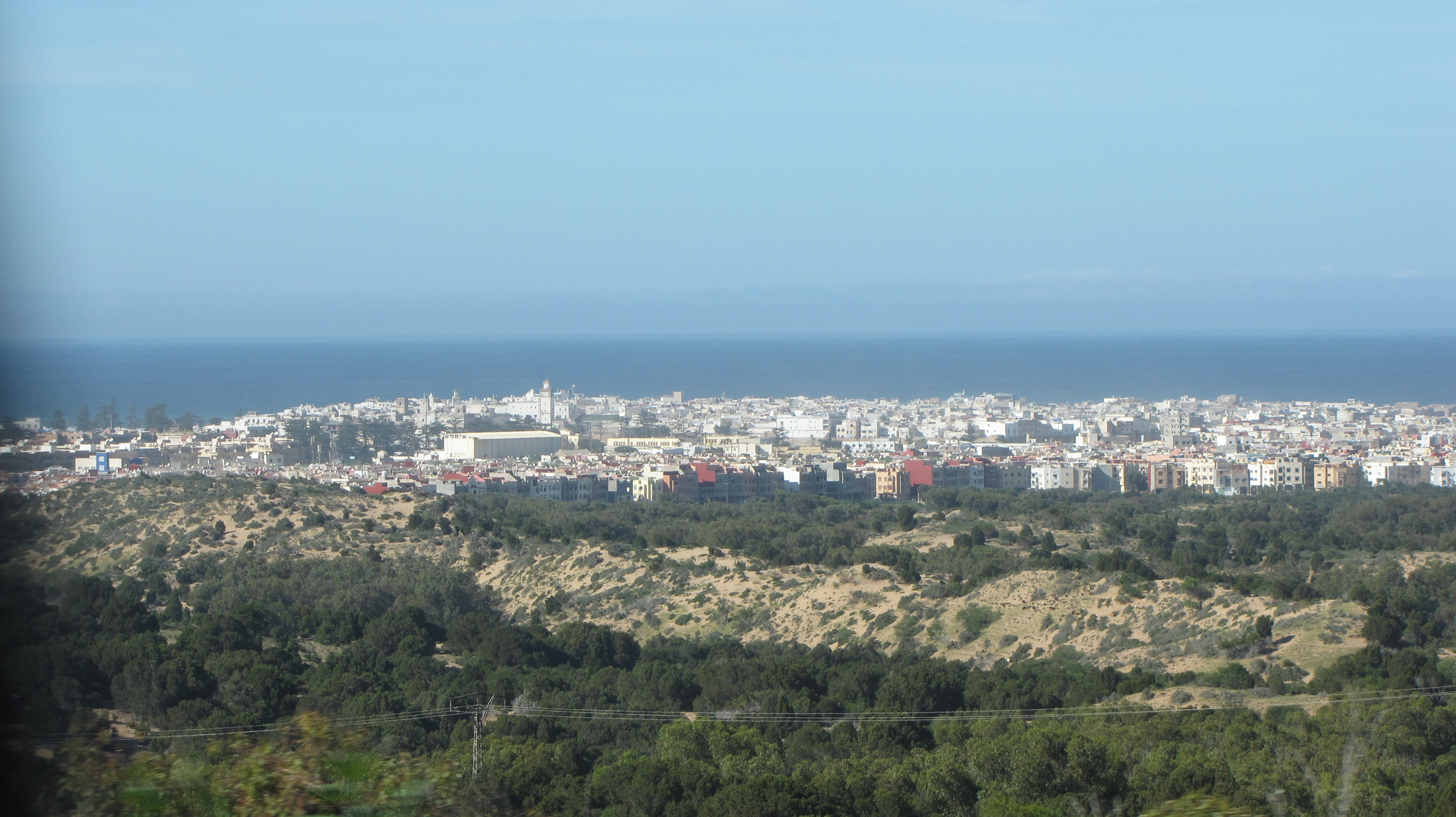 A view to Moroccan city of Essaouira.